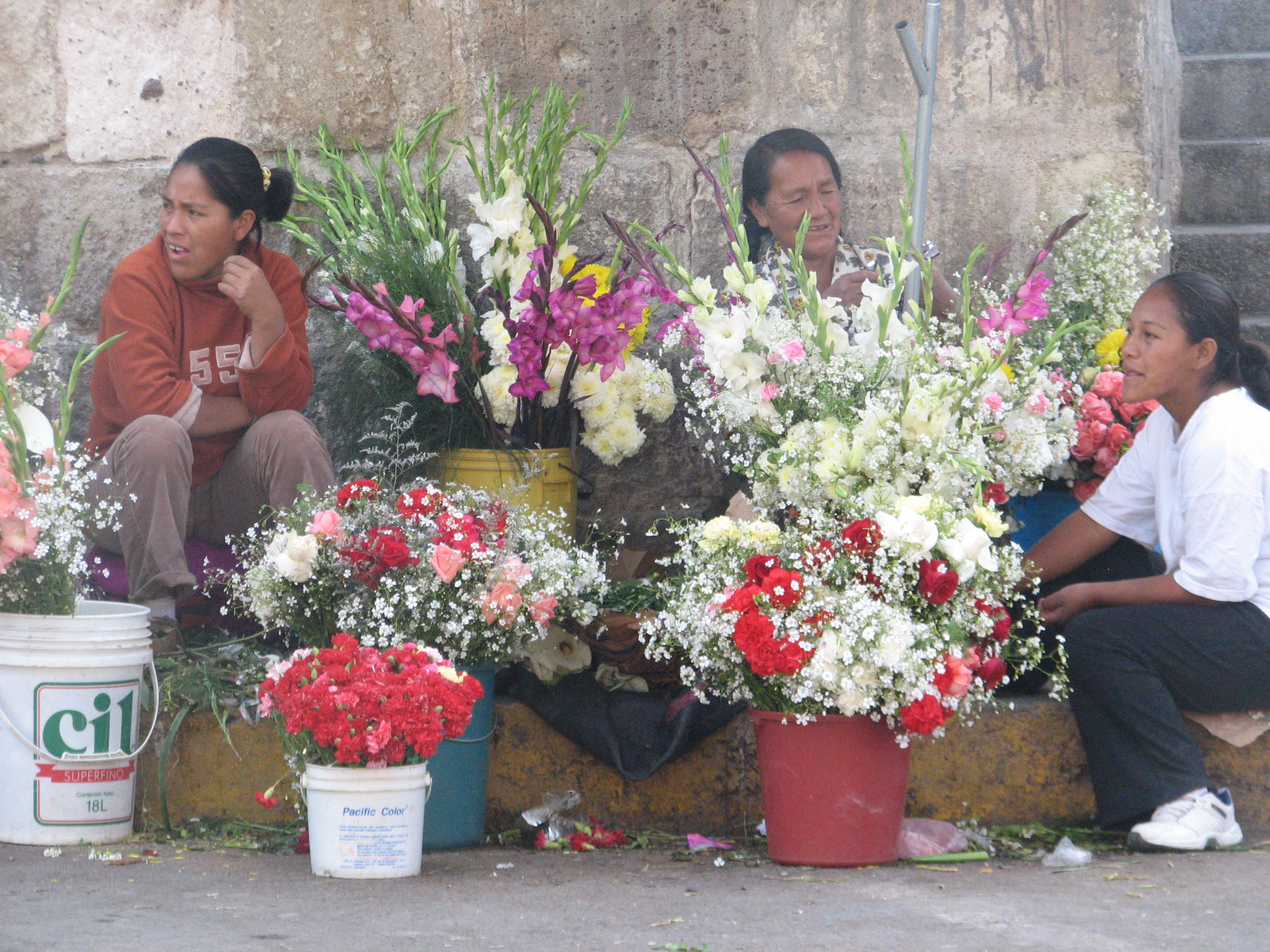 Cheese at the market in Ayacucho/Huamanga/Ayacucho, Peru